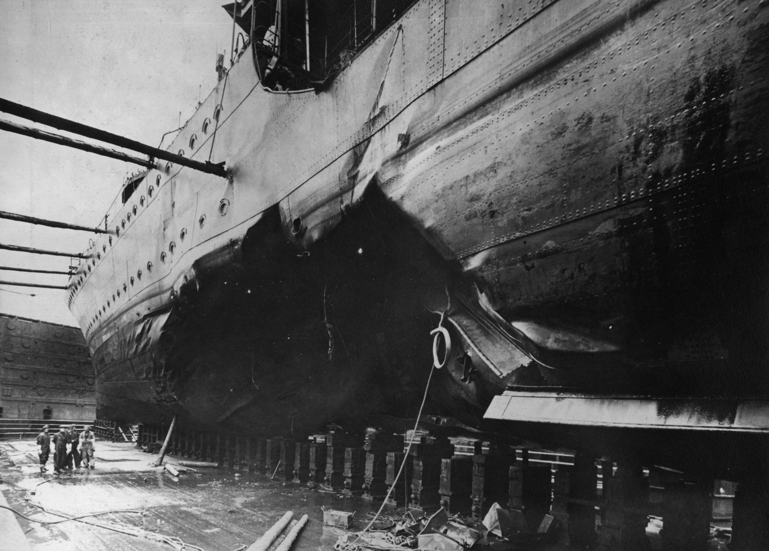 This photograph, taken in the Hawthorn Leslie yard, Hebburn shows the severe torpedo damage to HMS Kelly, 1940. Reference: 2931-43-02 This image is taken from an album produced by the world famous shipbuilding and engineering firm of Hawthorn Leslie. The album gives us a fascinating glimpse of life at the company's shipyard at Hebburn from the late 1930s to the 1960s. There are remarkable images of the men at work in the yard and a poignant series showing the terrible damage caused during the Second World War to HMS Kelly, one of Hawthorn Leslie's best loved ships. This particular collection of images follows the Birth and ultimate Death of a ship. From the craft and pride in its production and the joy in its performance, to the devastation and price of its destruction. A blog about this fascinating collection can been viewed on the Tyne & Wear Archives & Museums website. (Copyright) We're happy for you to share these digital images within the spirit of The Commons. Please cite 'Tyne & Wear Archives & Museums' when reusing. Certain restrictions on high quality reproductions and commercial use of the original physical version apply though; if you're unsure please